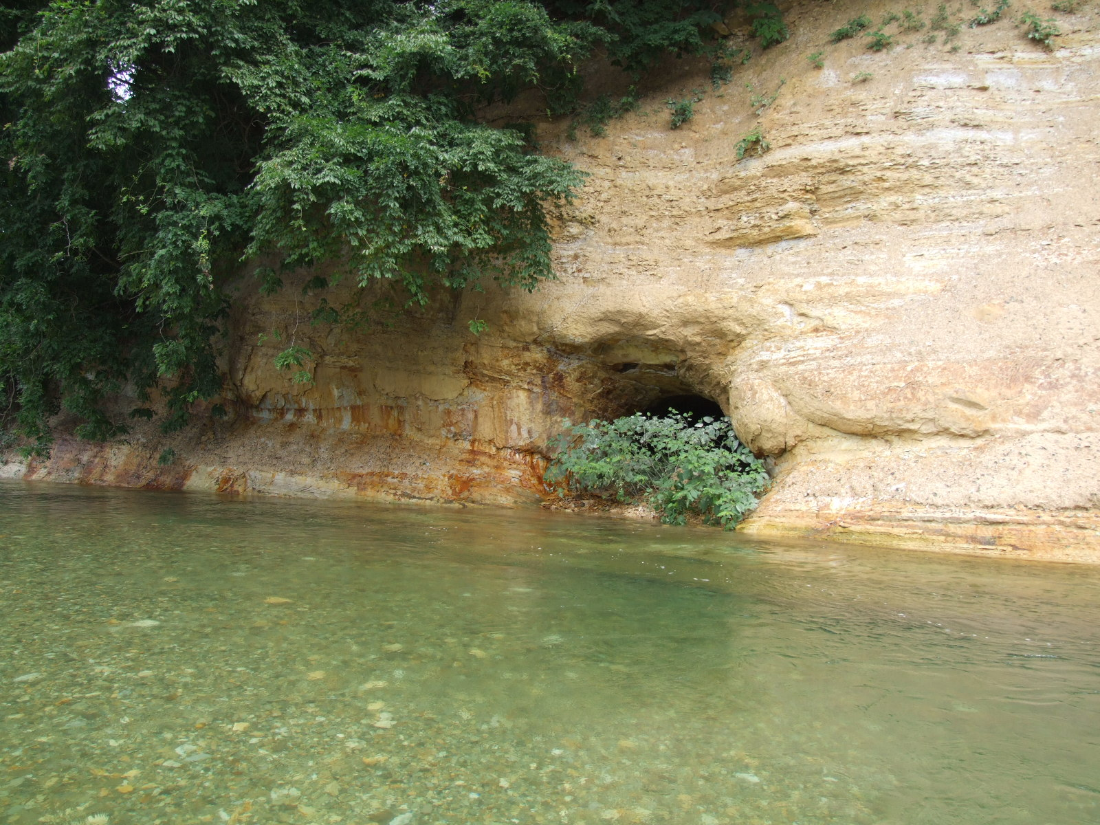 Kagoiwa. A tunnel on the side of the Hirose River. Sendai, Miyagi prefecture, Japan.